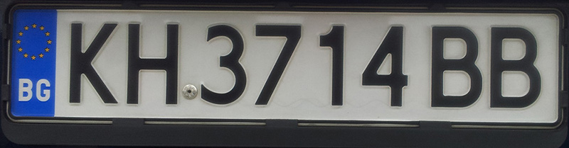 Registration plate from Bulgaria.